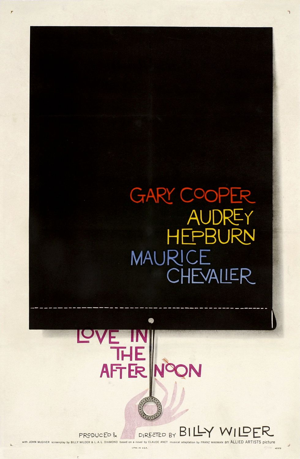 Love in the Afternoon (1957) movie poster. American release poster by Saul Bass.